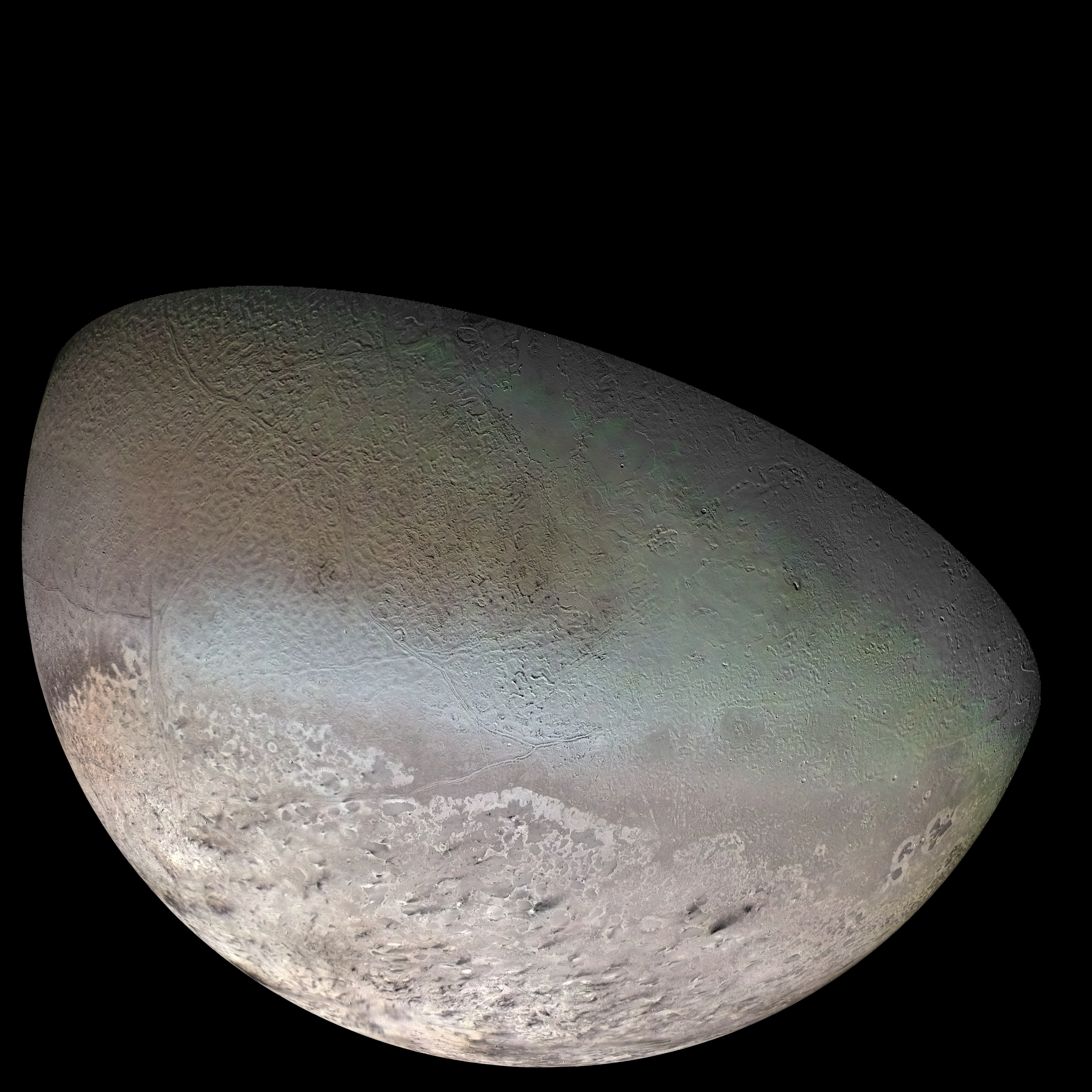 Global Color Mosaic of Triton, taken by Voyager 2 in 1989